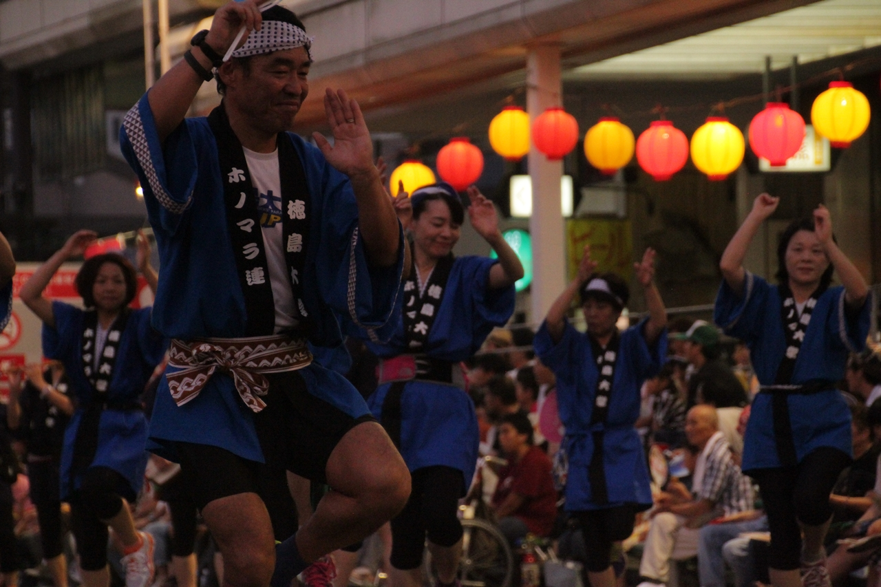 Photographed during Bon AwaOdori Festival in Tokushima.